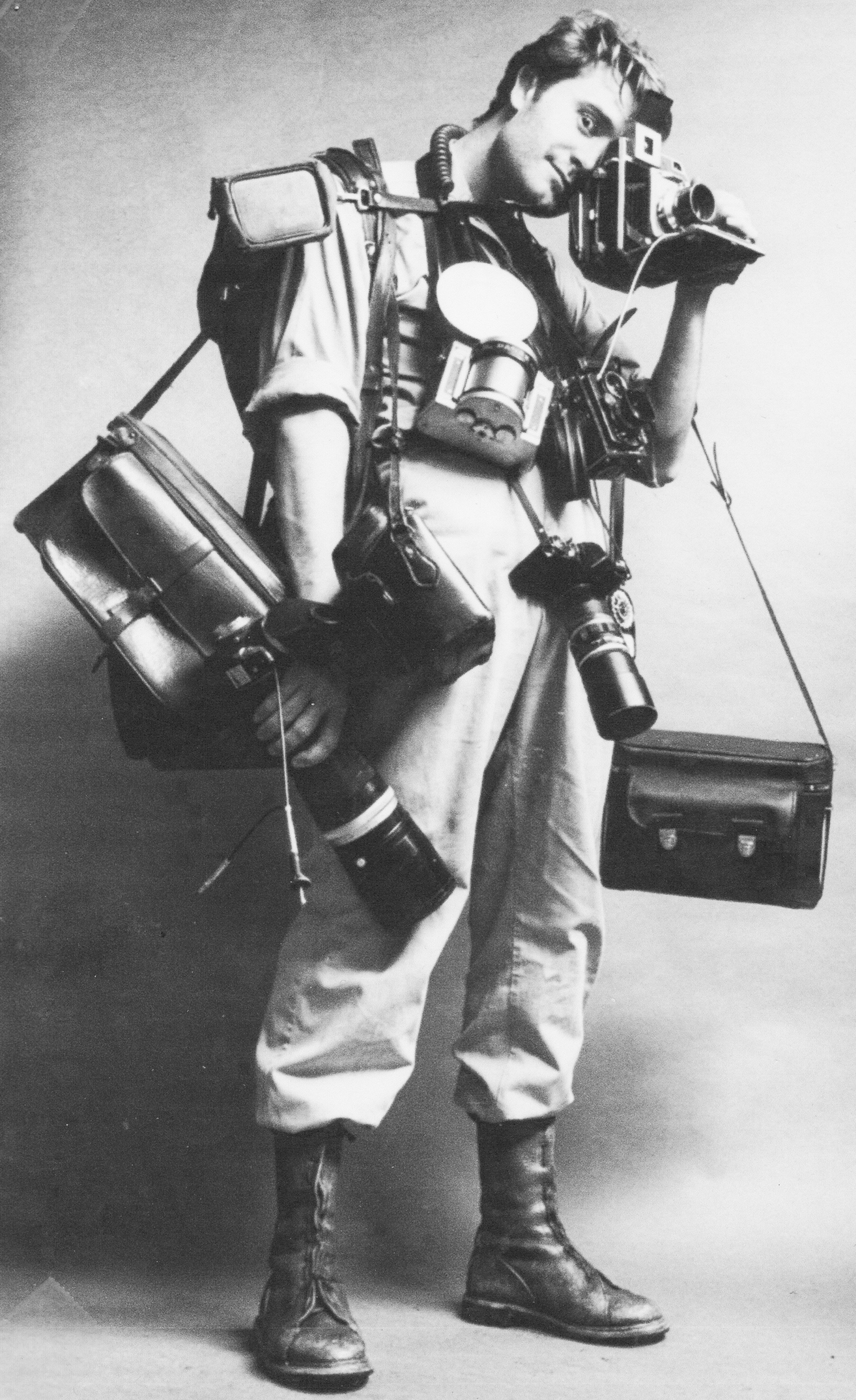 self-portrait by Jean-Louis Swiners, le Photographe Orchestre, 1962